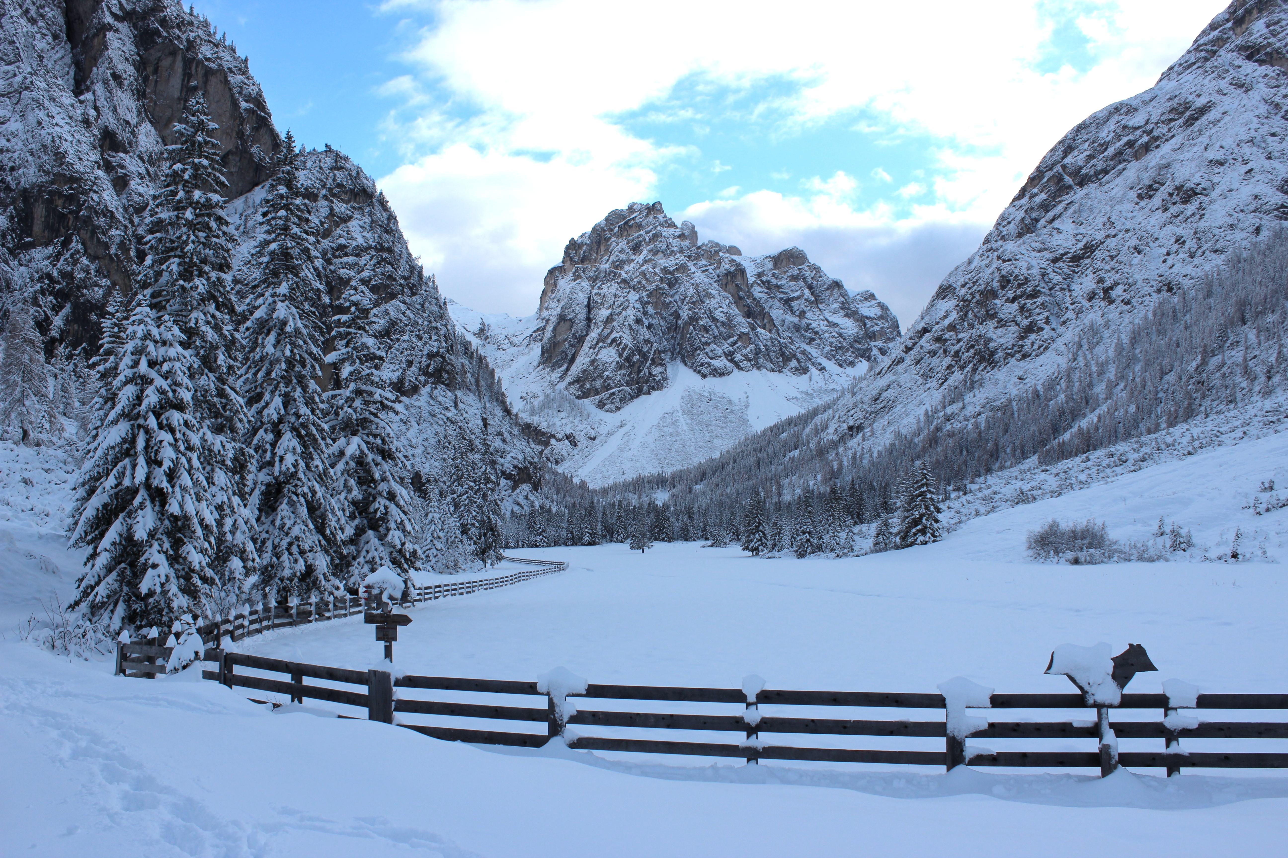 Morgenkopf (2493 m) - view from Innerfeldtal (Setener Dolomites).